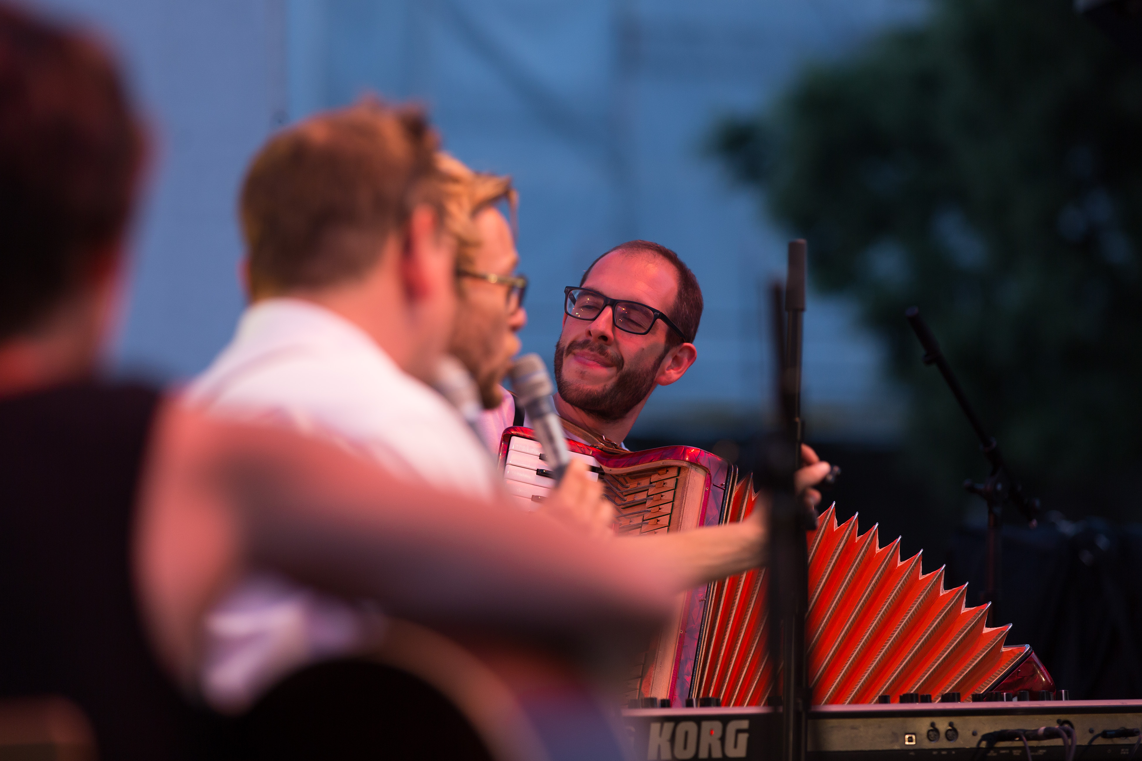 Popfest 2015: 5/8erl in Ehr'n; Karlsplatz in Vienna, Austria.